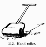 This is an image from L. H. Bailey's Manual of Gardening.